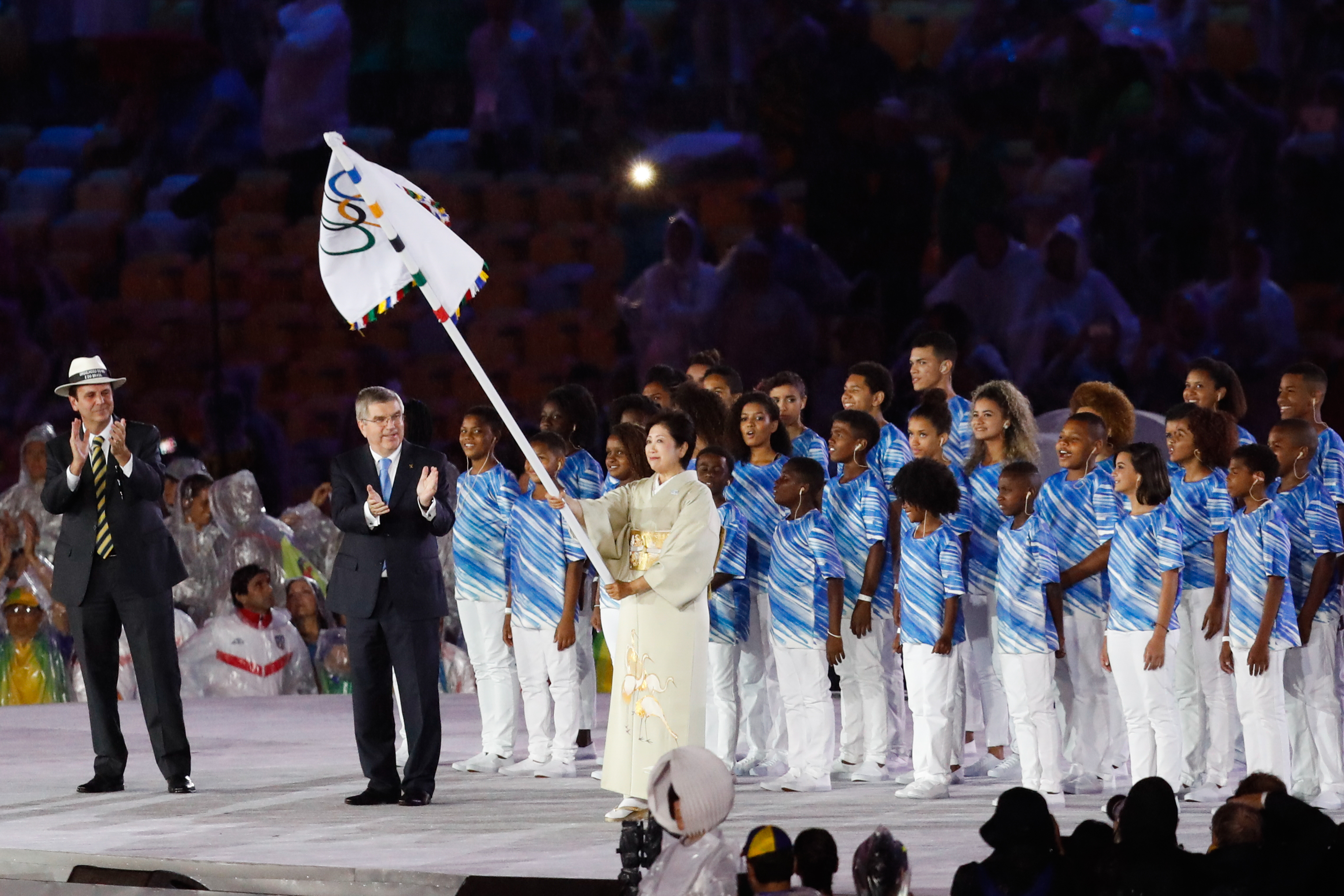 Rio de Janeiro - Cerimônia de encerramento dos Jogos Olímpicos Rio 2016, no Maracanã ( Fernando Frazão/Agência Brasil)